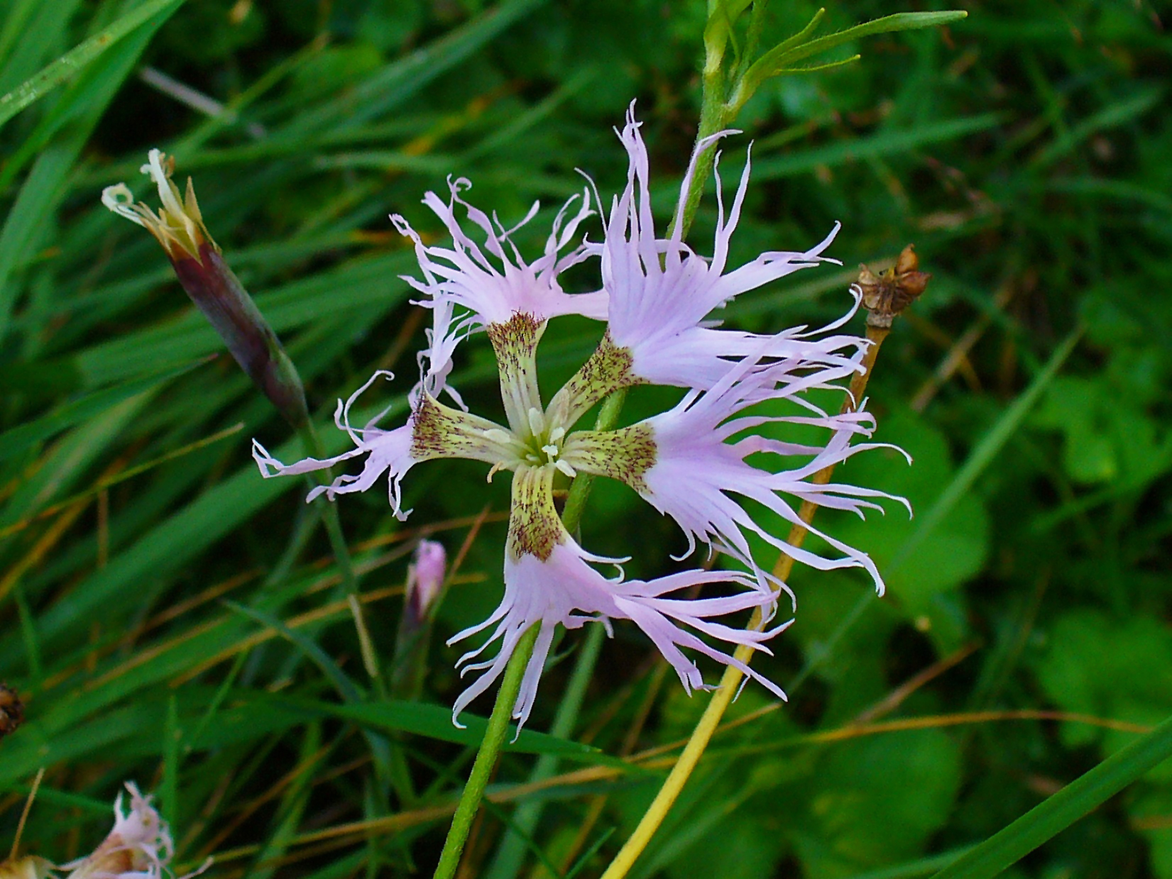 Dianthus superbus alpestris, Caryophyllaceae, Large Pink, flower; Heidi’s Flower Trail, St. Moritz, Engadin, Switzerland, altidude ca. 2.000 m.